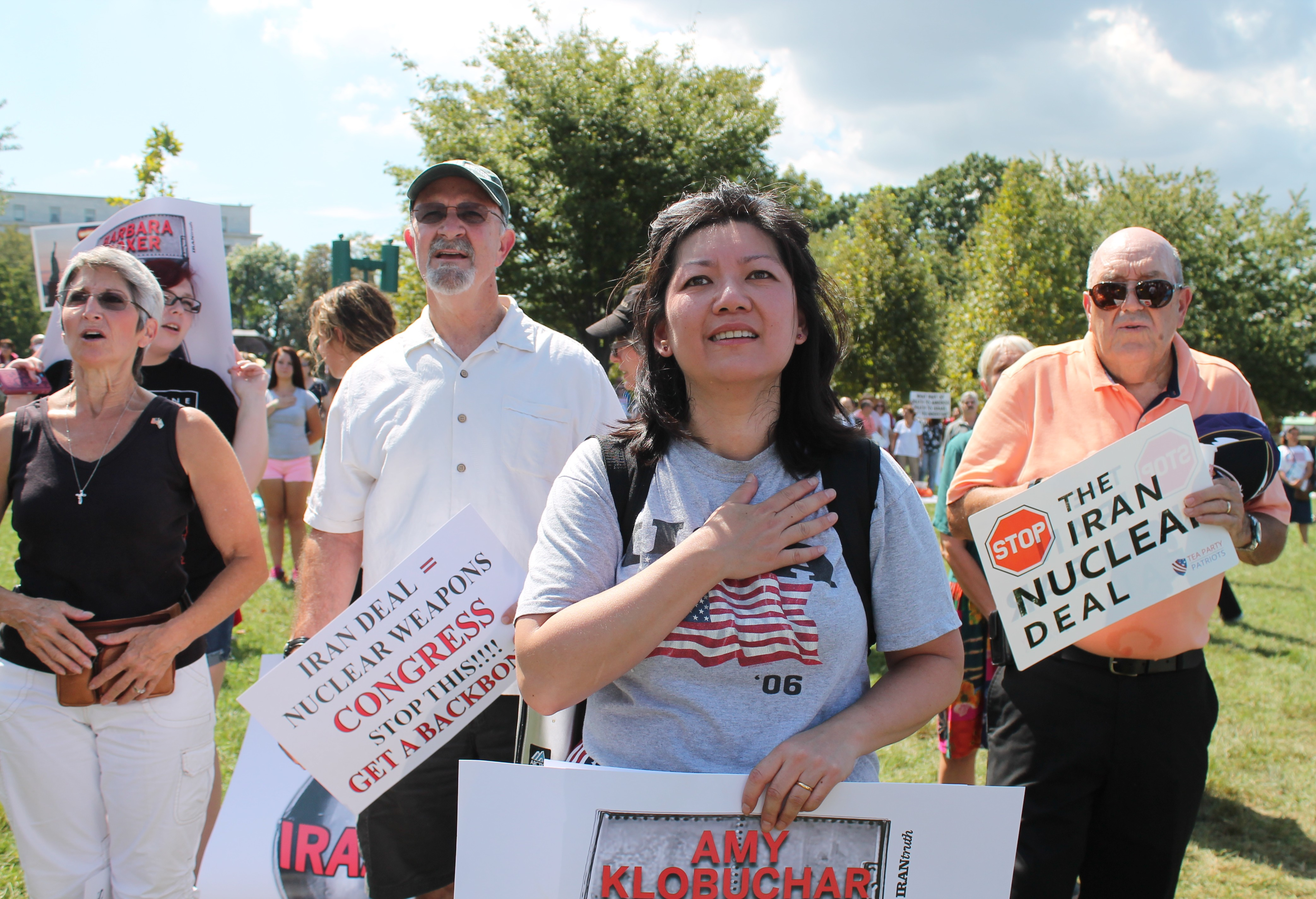 Tea Party Patriots STOP THE IRAN NUCLEAR DEAL RALLY on the US Capitol West Lawn in Washington DC on Wednesday morning, 9 September 2015 by Elvert Barnes Protest Photography Tea Party Patriots STOP THE IRAN NUCLEAR DEAL website at Elvert Barnes PROTEST PHOTOGRAPHY at